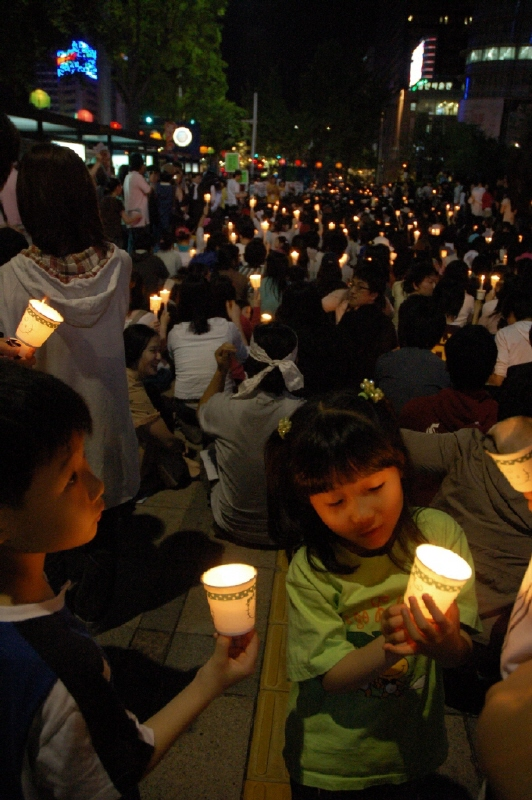 Picture of South Korea's Protest Against Importing American Beef in Cheonggyecheon area, on May 3, 2008